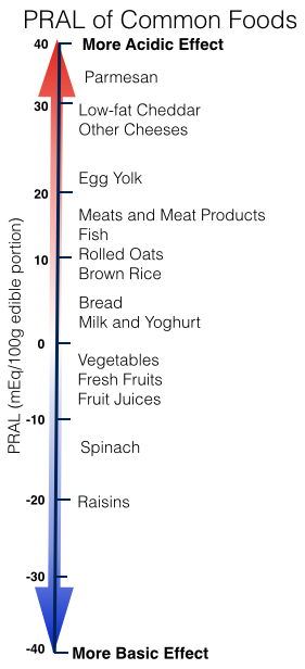 The Potential Renal Acid Load (PRAL) of some commons foods.